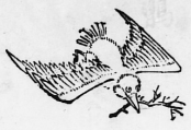 This image is a detail from a plate. It depicts Jingwei (精衛).